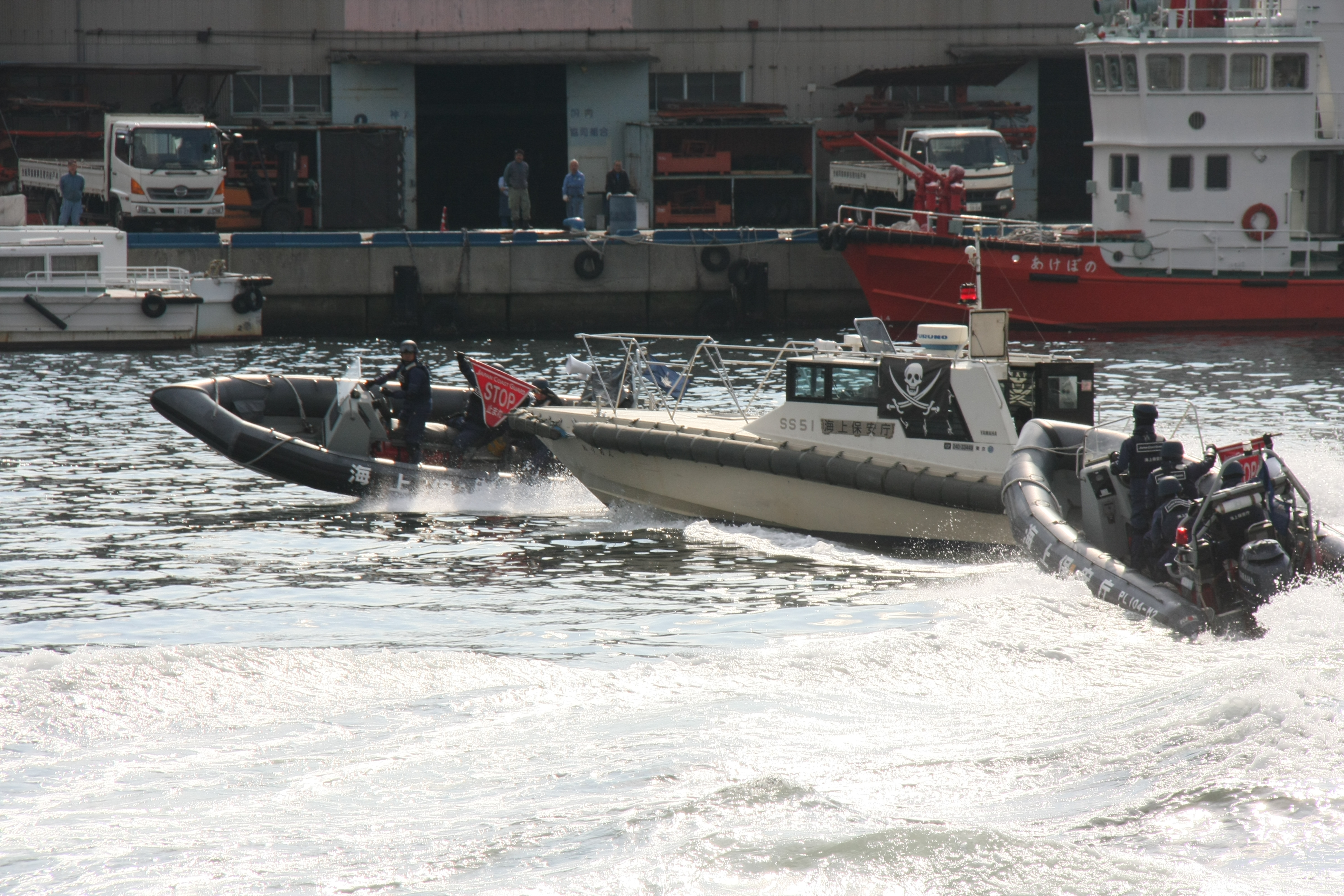 Drill of Japan Coast Guard in Kobe